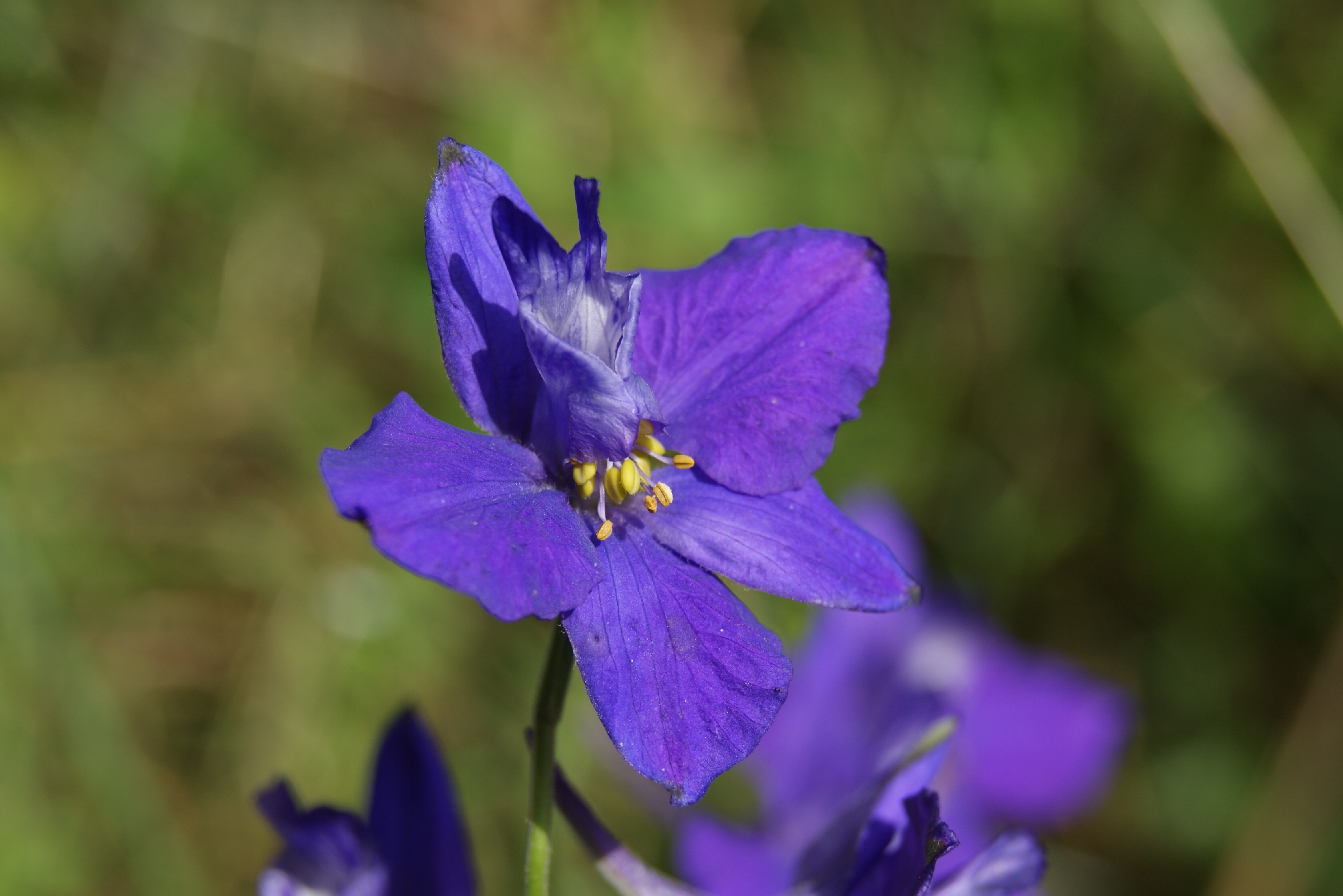 Consolida ajacis, Germany.